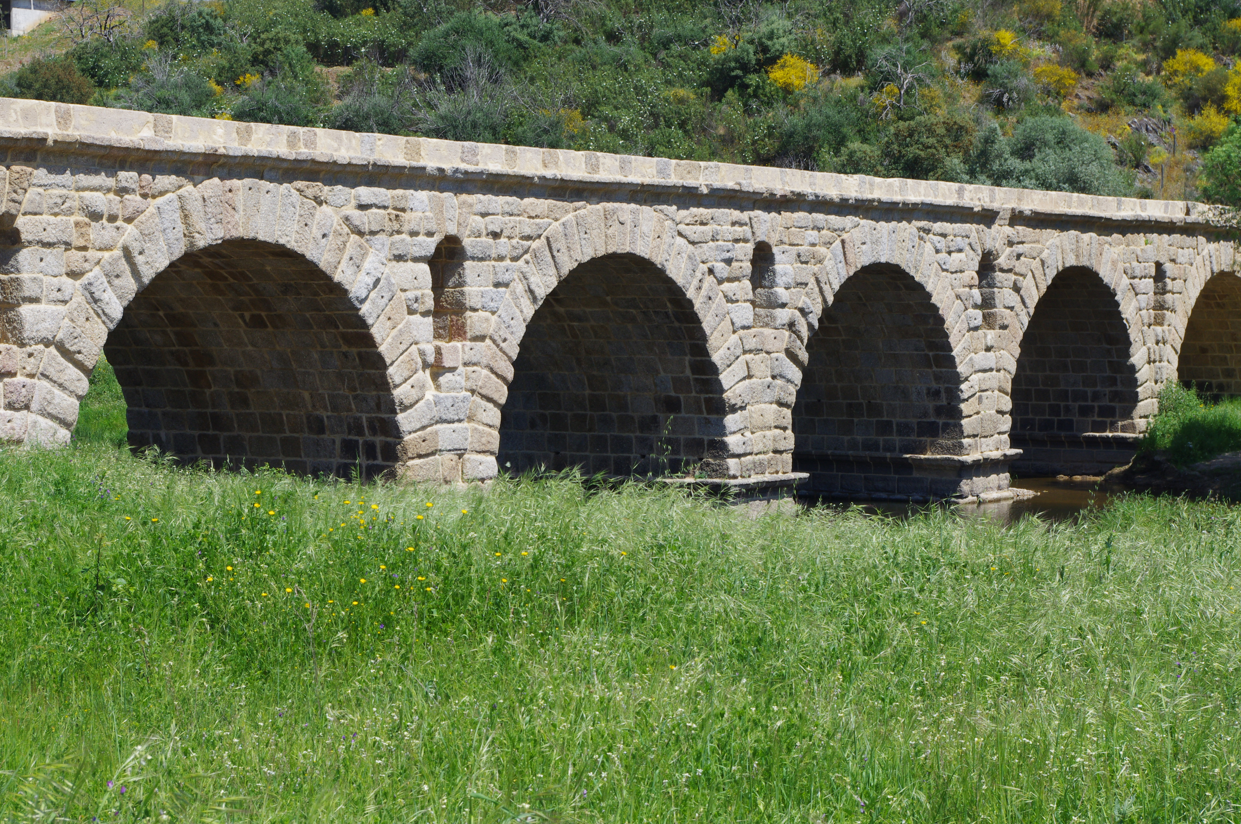 Built by the Romans around 85 AD, it remained the only crossing over the Seda river until 2010! A modern new bridge is about 300 meters behind it. Imagine the millions of people, horses, chariots, cars and semi-tractor trailer trucks that crossed it over the course of over 1,900 years -- and it is still solid as the day it was built. Those Romans did things right.